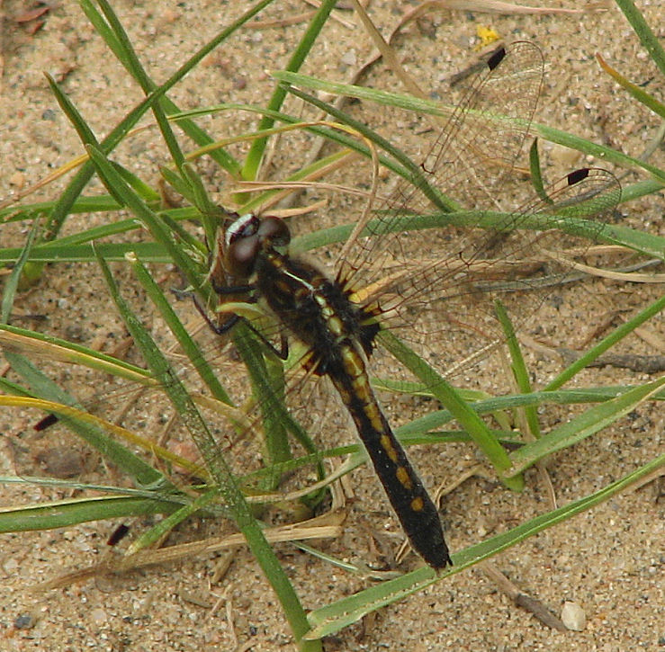 Frosted Whiteface (Leucorrhinia frigida), female, Madawaska River, Ontario